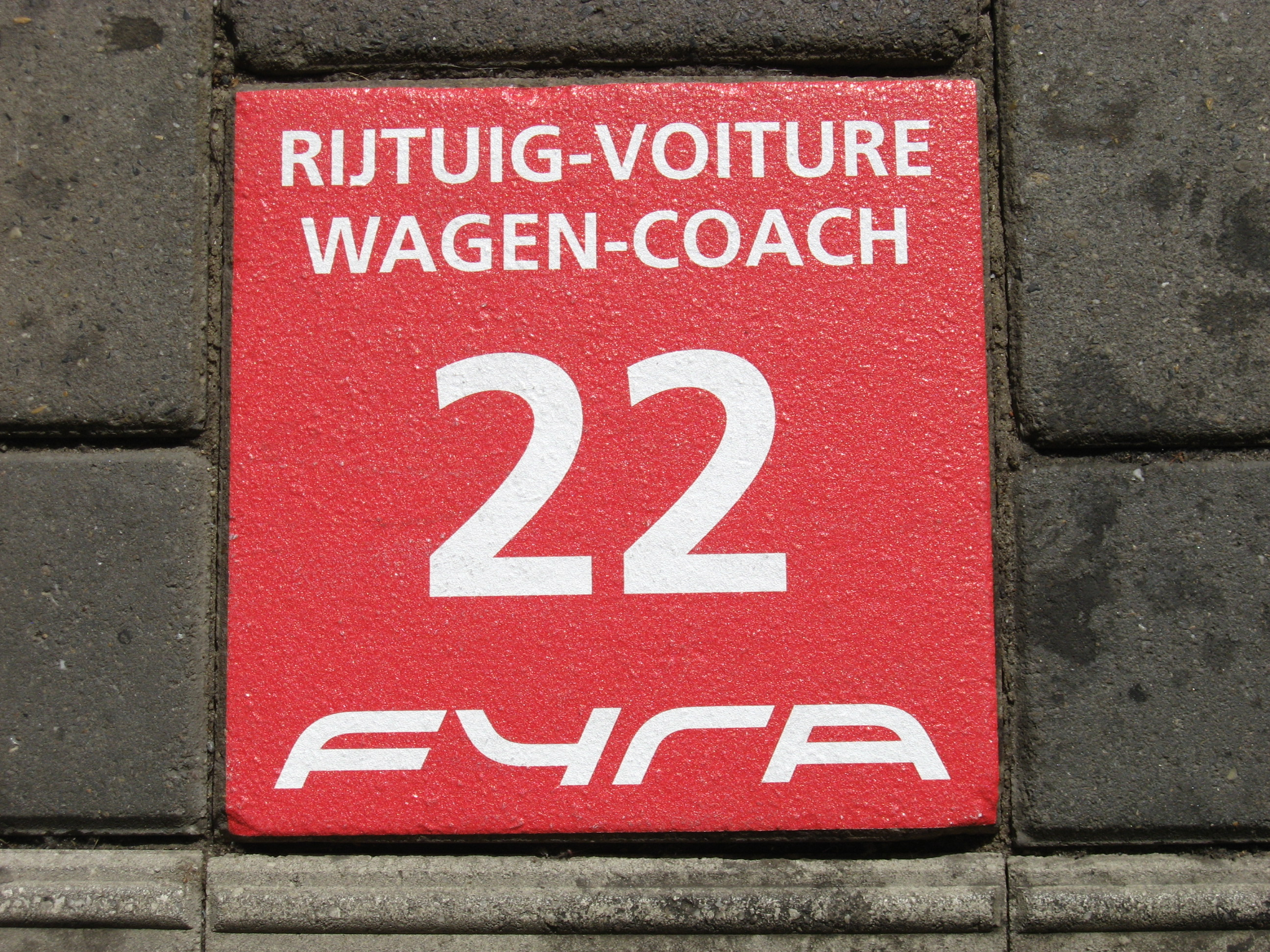 Pavement marking for the position of a Fyra coach